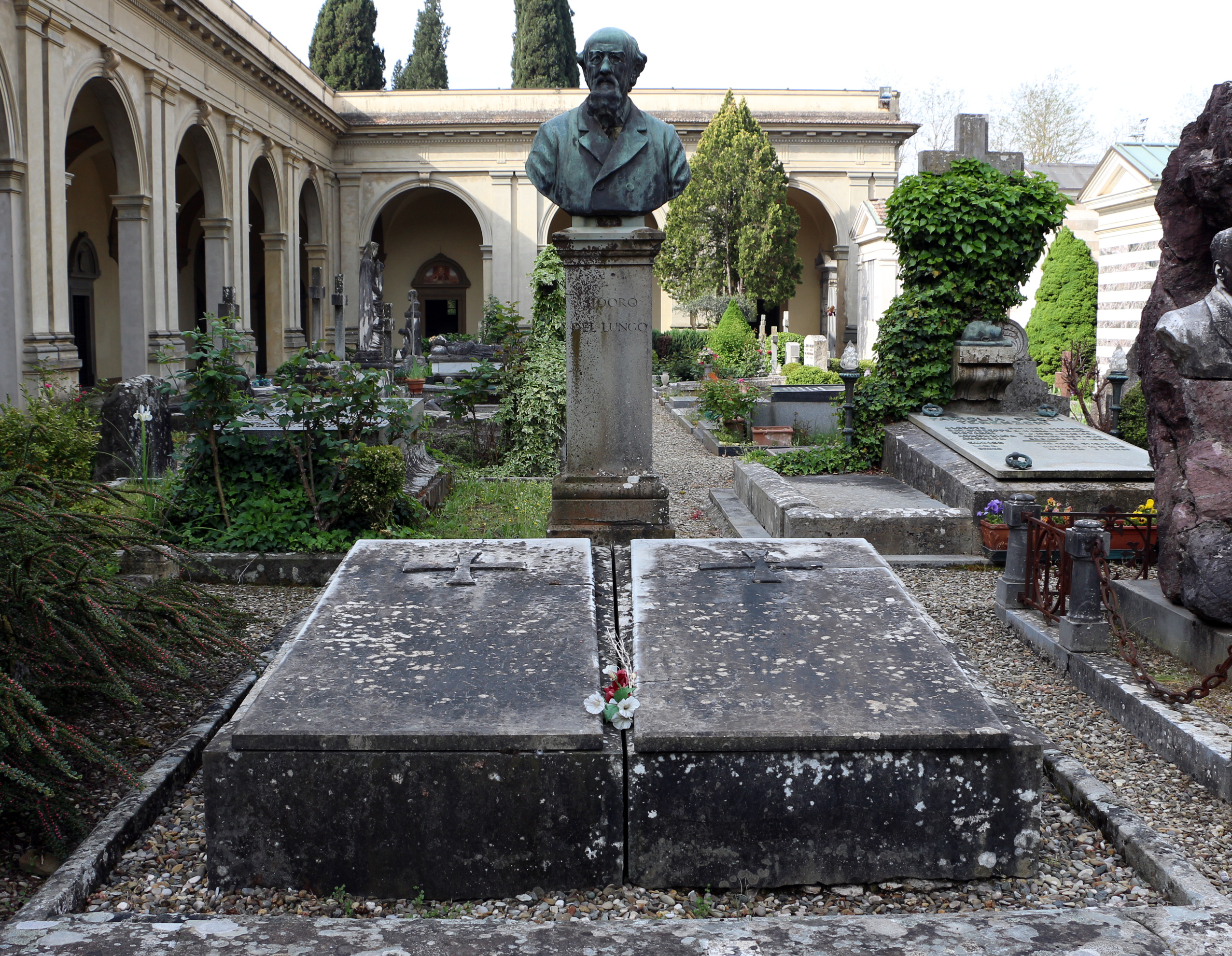 Cimitero Monumentale della Misericordia (Antella)